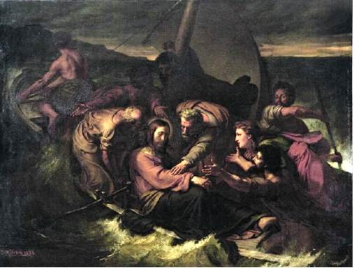 Jesus on the Stormy Sea